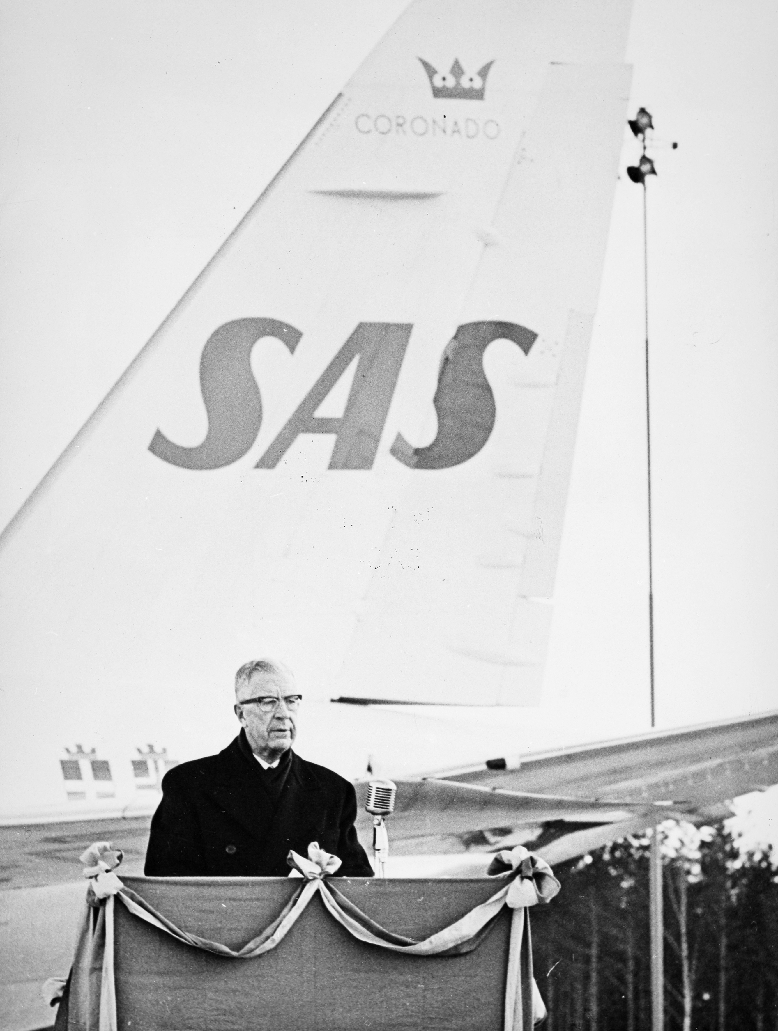 Inaugural of Arlanda Airport, The giant tail of the new SAS Coronado jet provides a suitable backdrop as His Royal Highness King Gustaf Adolf of Sweden opens Stockholm's new Arlanda Airport